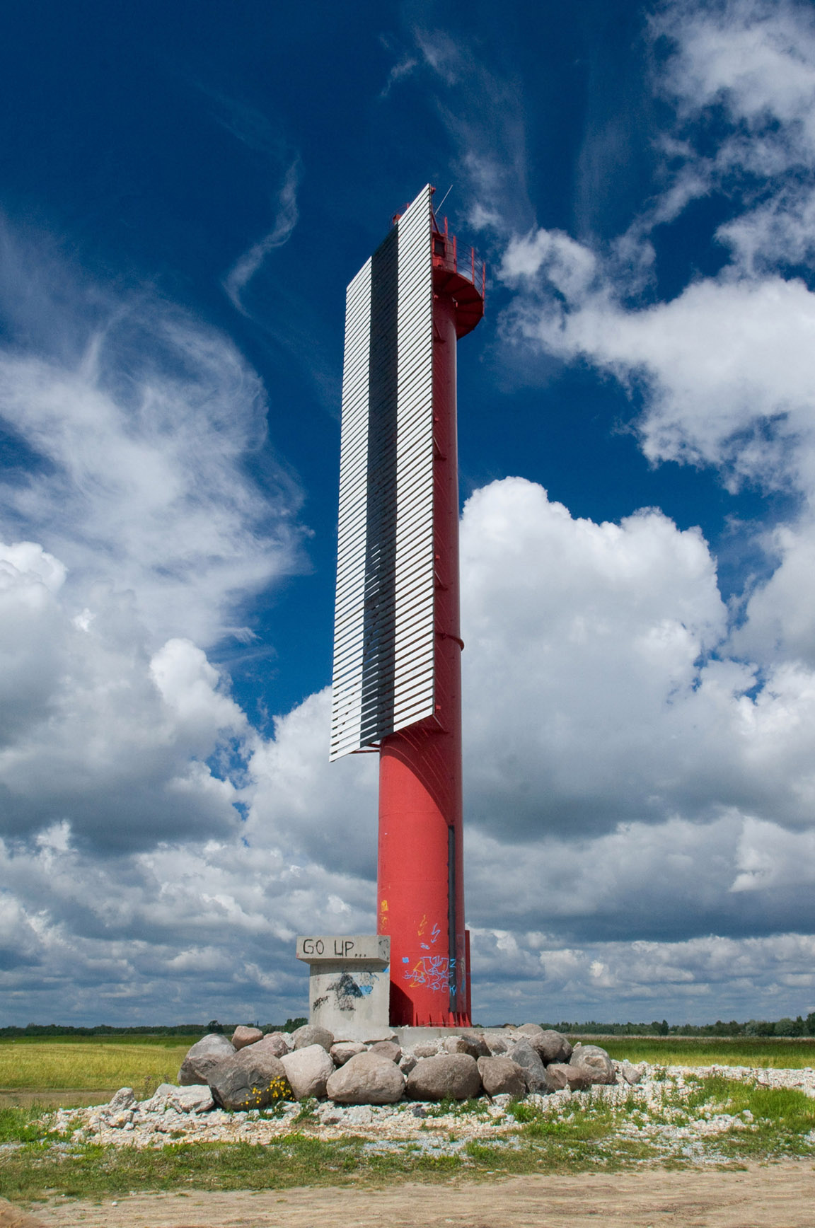 Pärnu Approach front light beacon